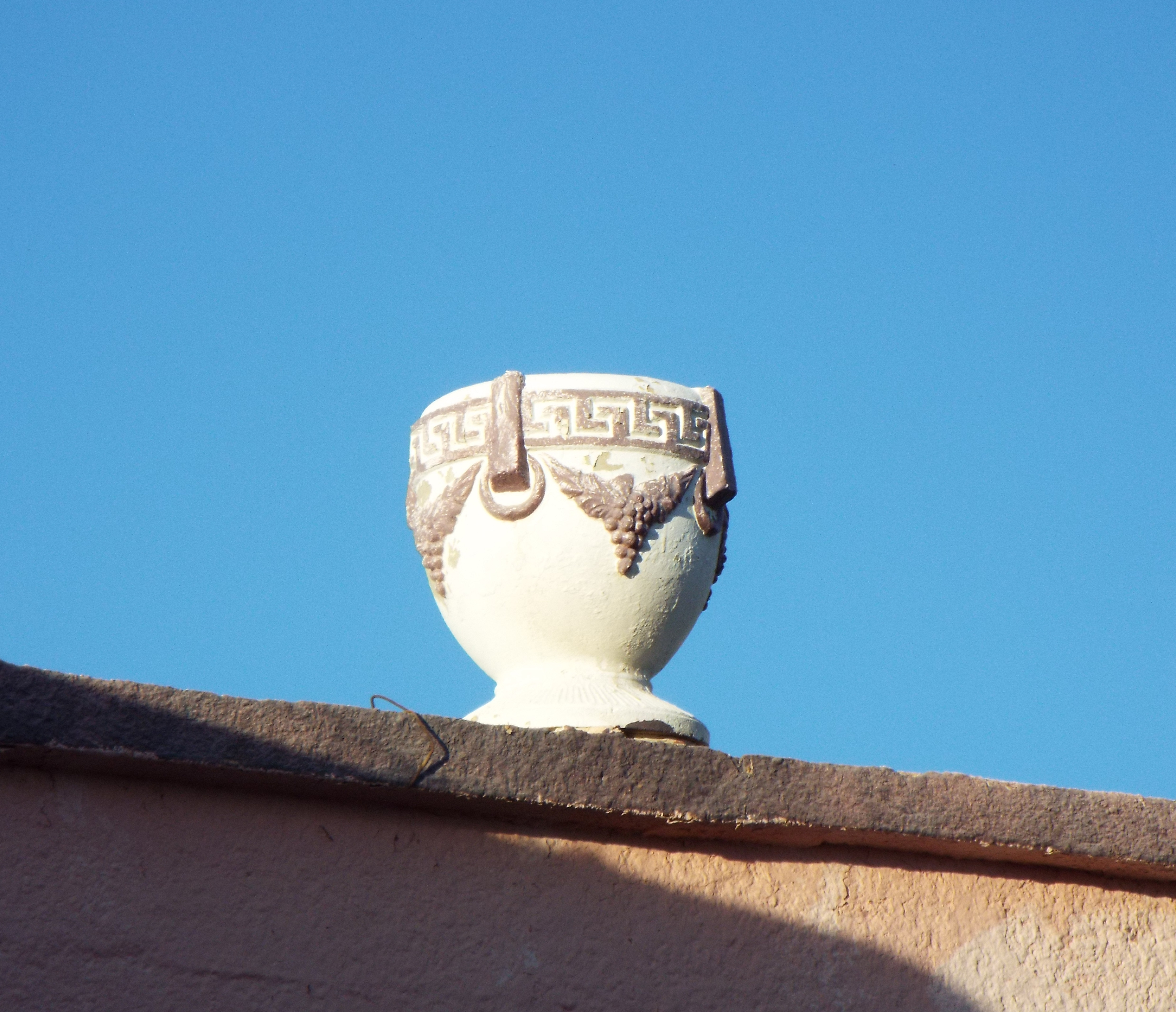 The Cactus Press-Plaza Paint Building fixture - Built in 1925 and located at 30-54 E. 3rd St. It was listed in the National Register of Historic Places in April 24, 1987, ref. #87000613